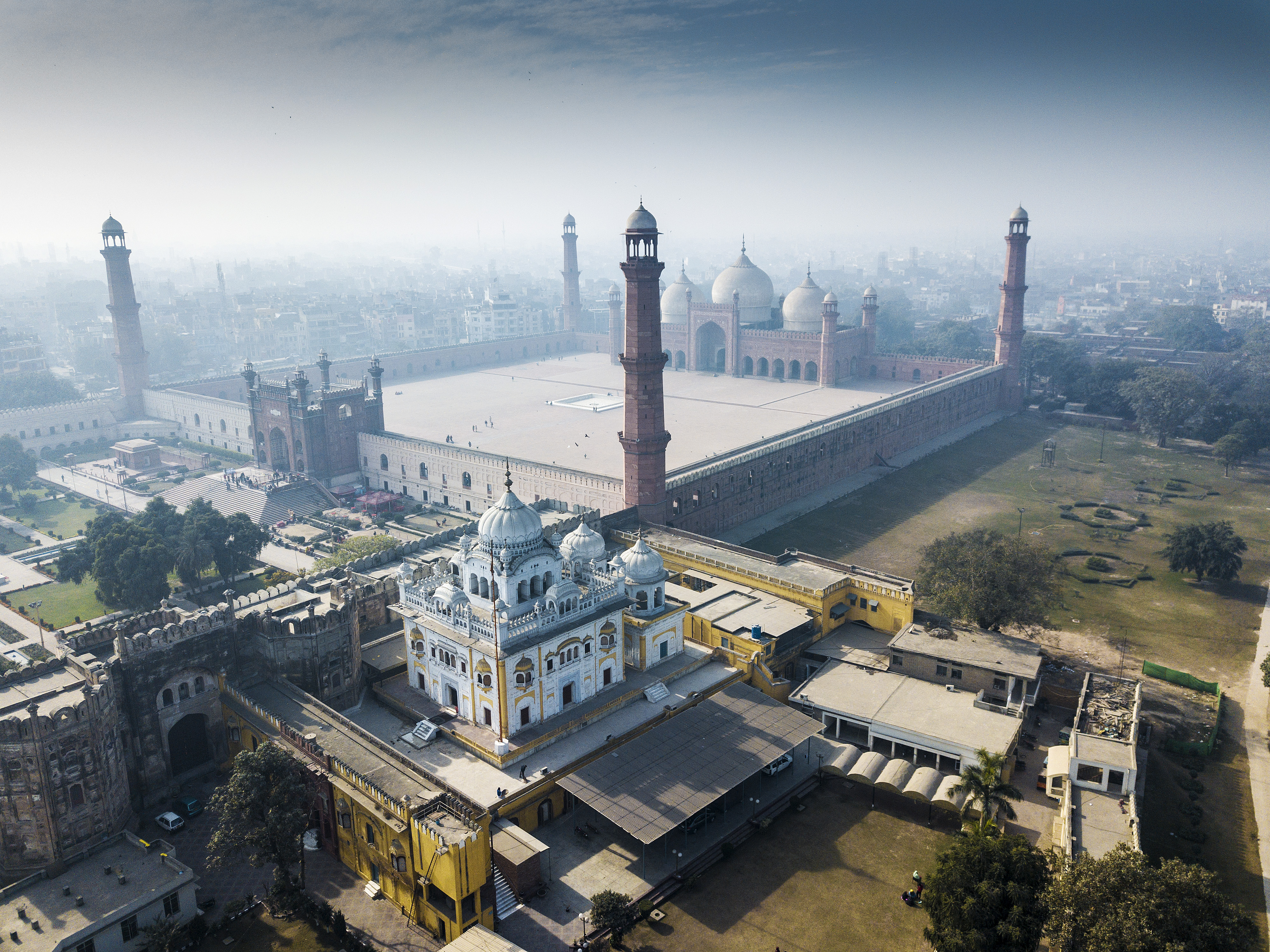 Badshahi Mosque (King’s Mosque) This is a photo of a monument in Pakistan identified as the PB-44